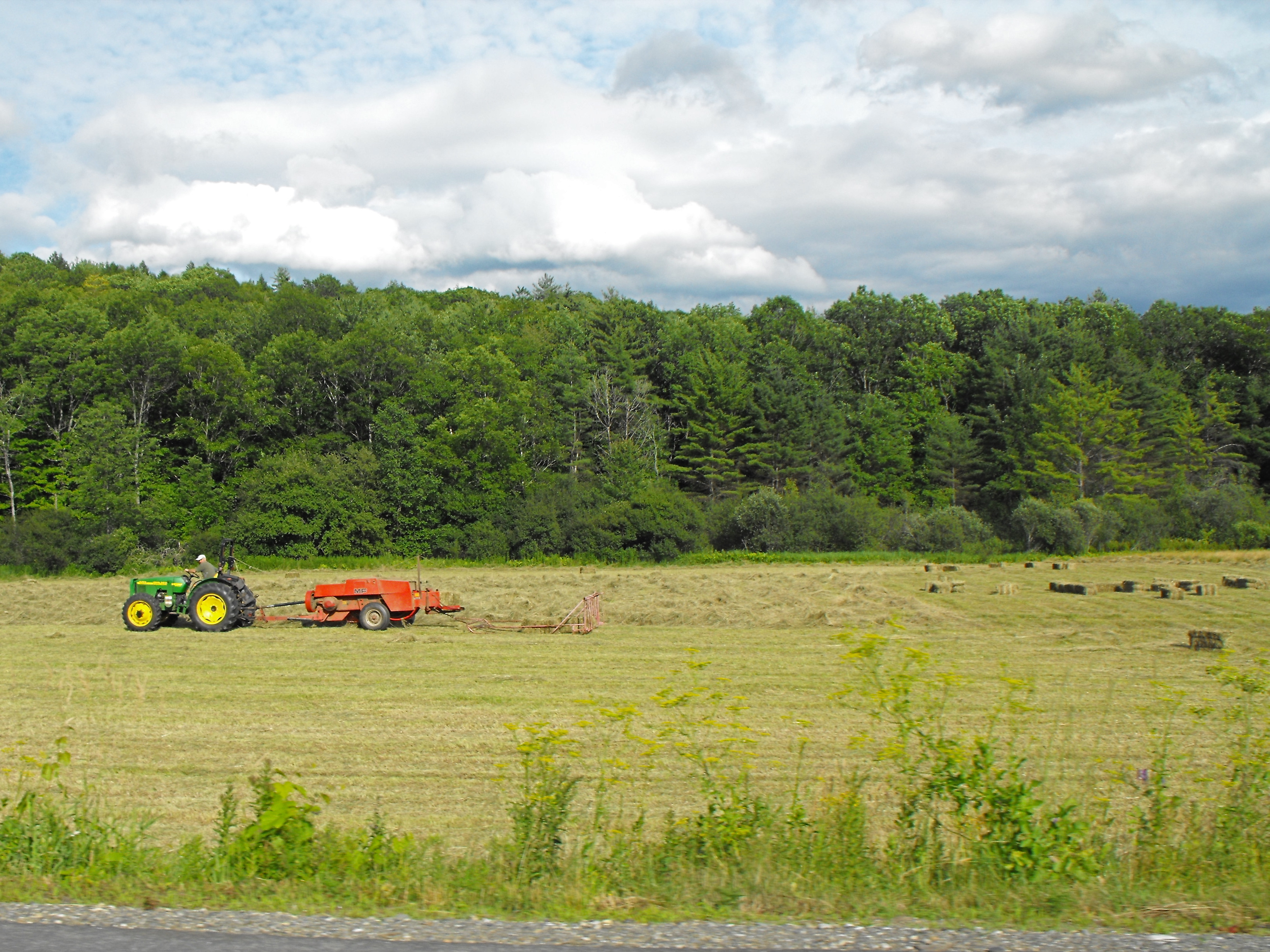 A John Deere tractor with a Massey Ferguson square baler and bale sledge; Patch Road, Westminster, Vermont, USA.